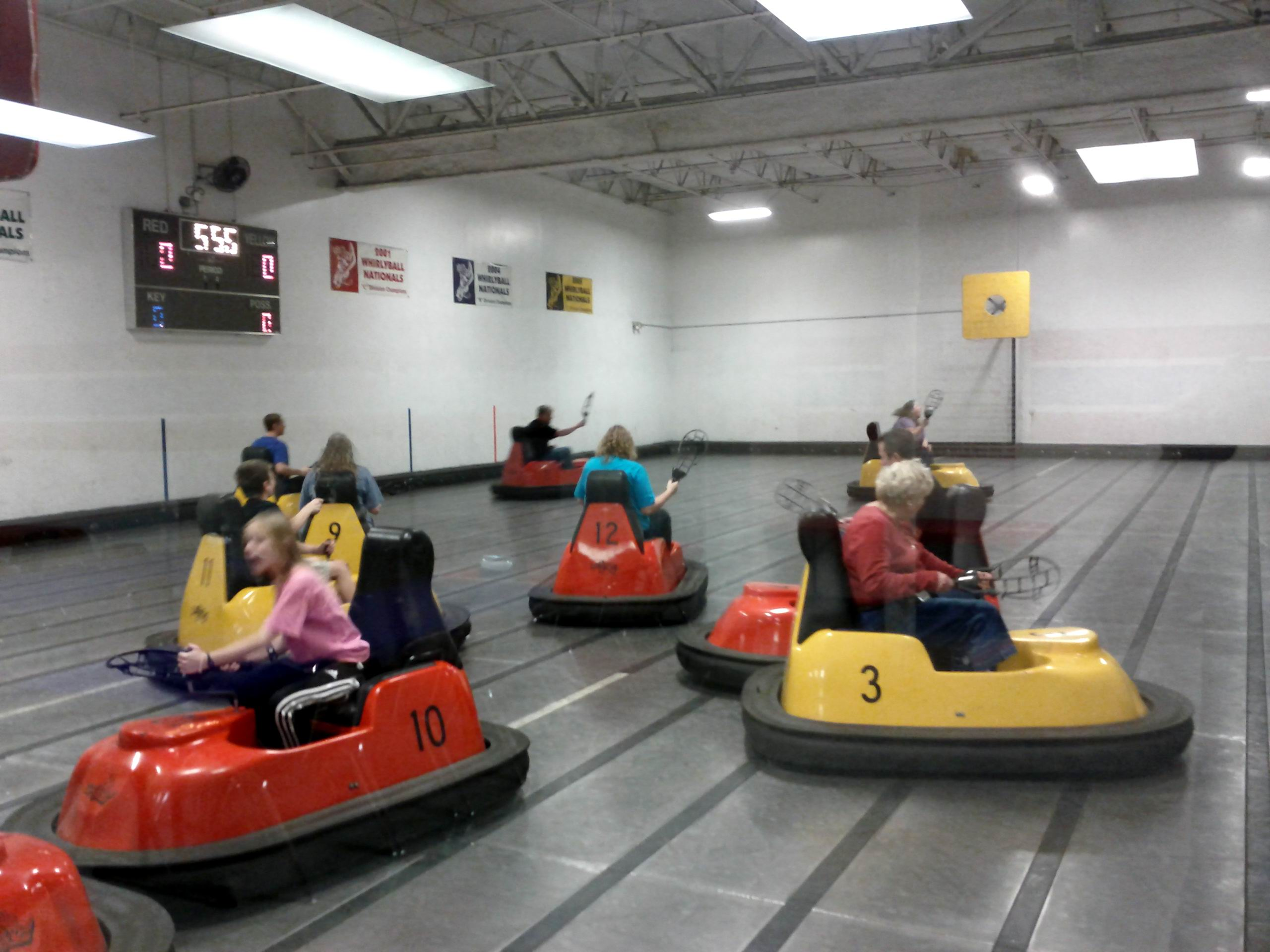 A whirlyball game in progress in Plano, TX